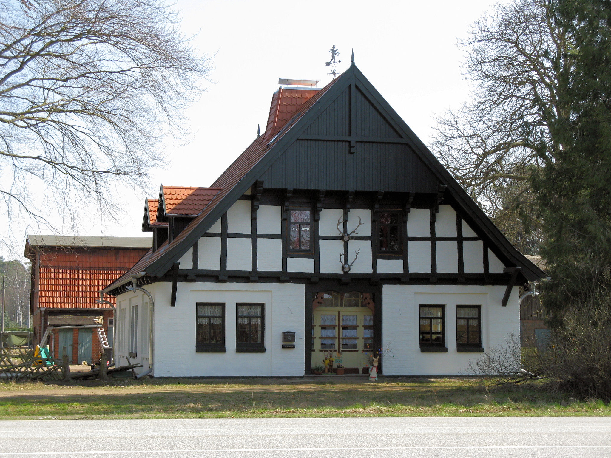 Forestry house in Hasenhäge, district Ludwigslust, Mecklenburg-Vorpommern, Germany